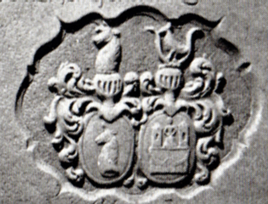 Coats of arms, fron the Nobility von Zepelinen (Zepelin)